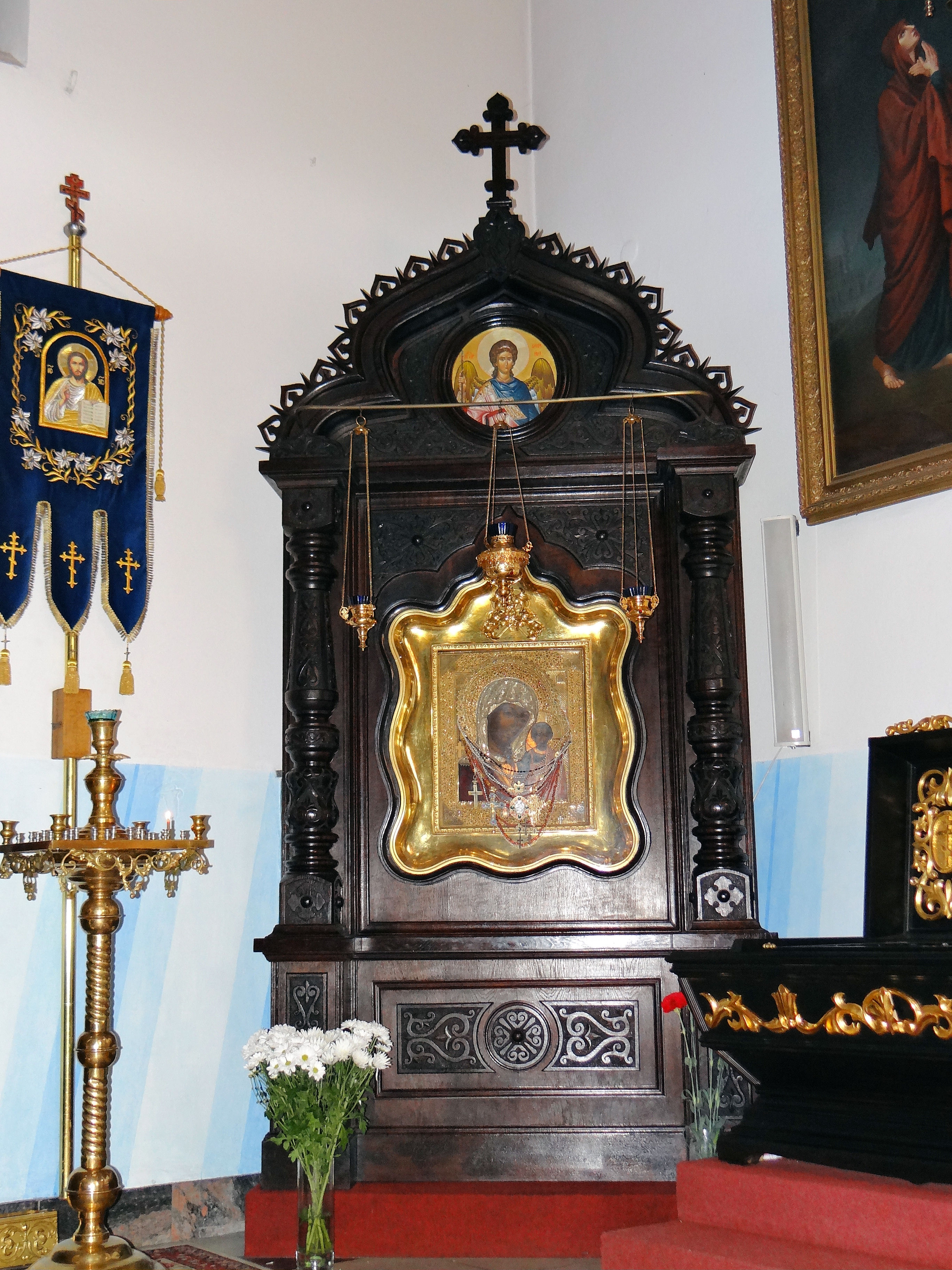 Interior of Orthodox church of St. John Climacus in Warsaw